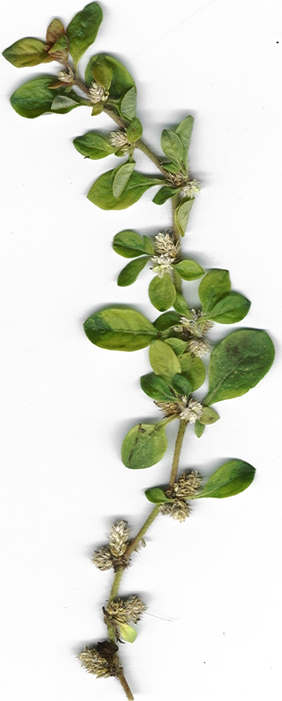 Alternanthera caracasana (habit). Location: Maui, Makawao